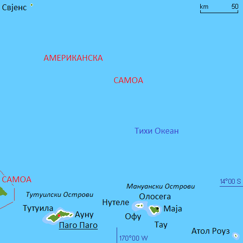 Map (rough) American Samoa, US, own work composed from various mapreferences in Macedonian.